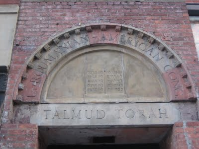 Doorway at 95 Rivington Street in Manhattan, incorporating arch stones from the First Roumanian-American synagogue